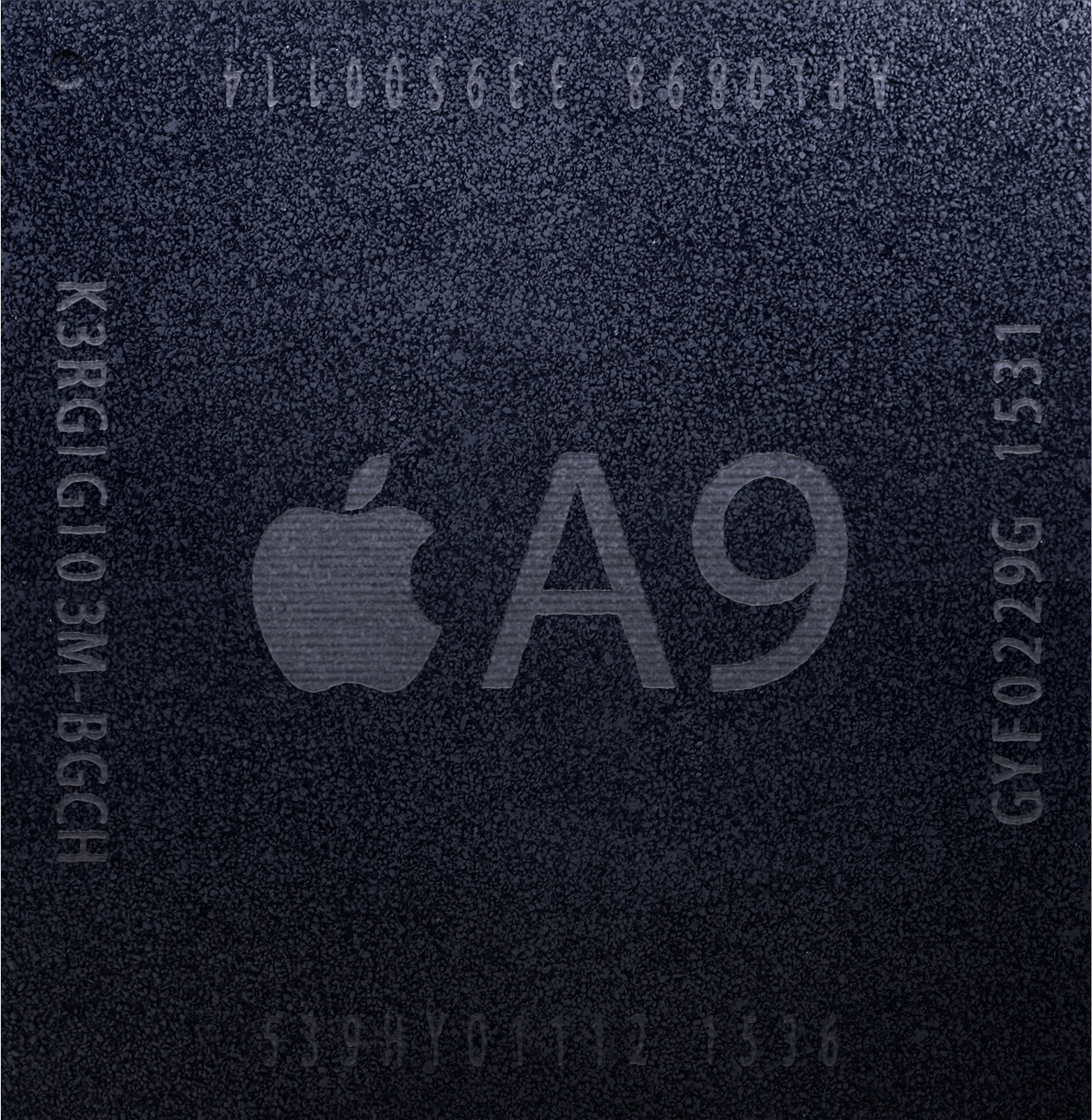 Apple A9 system-on-a-chip. This is the one in the iPhone 6S. This one is the Samsung version.